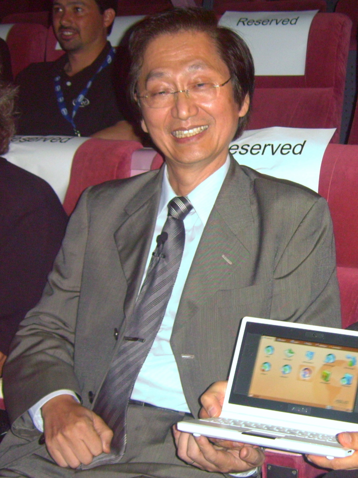 Jonney Shih, cueernt CEO and General Manager of ASUSTeK Computer Inc.